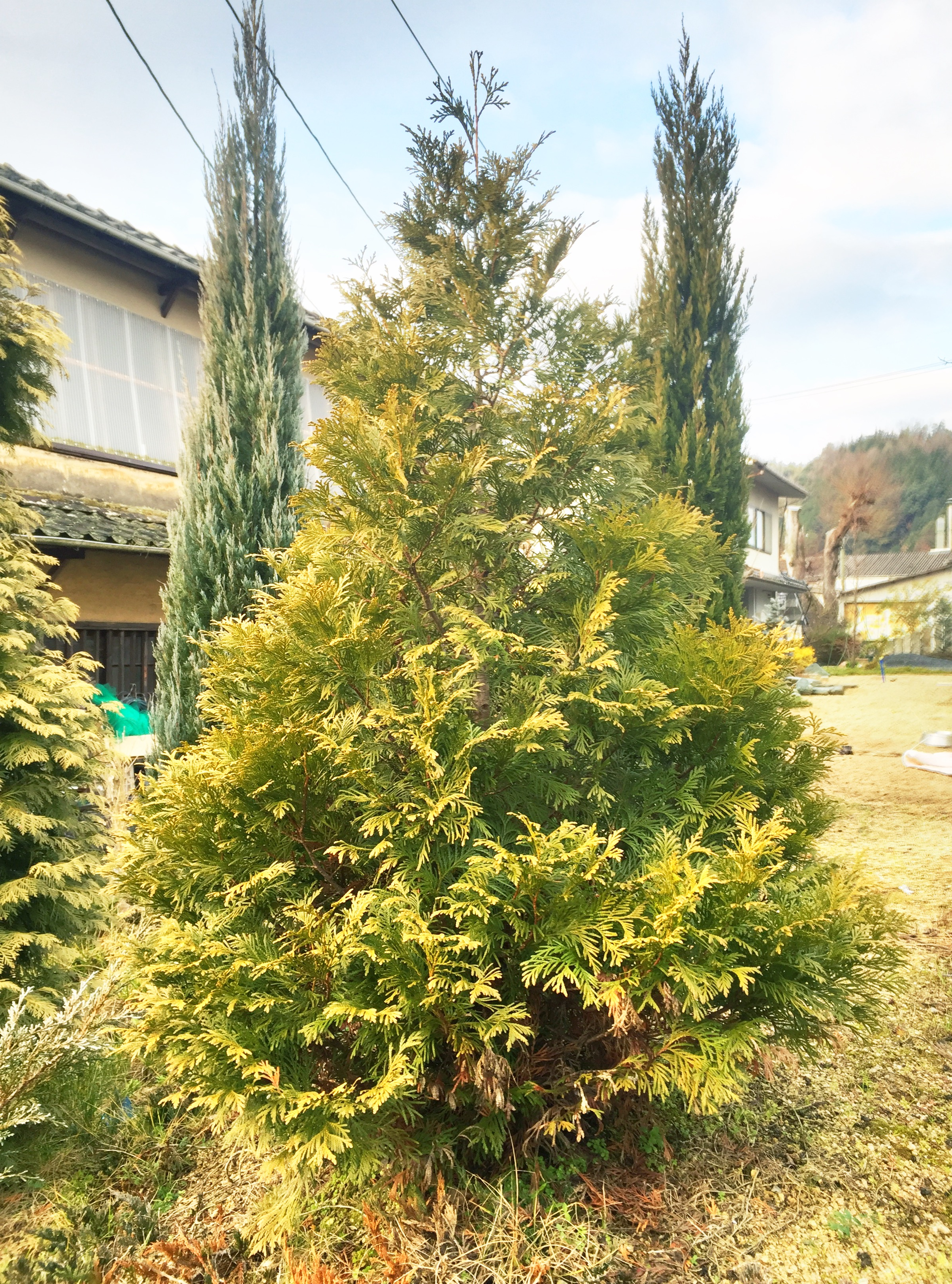 Thuja occidentalis‘Stolwijk’